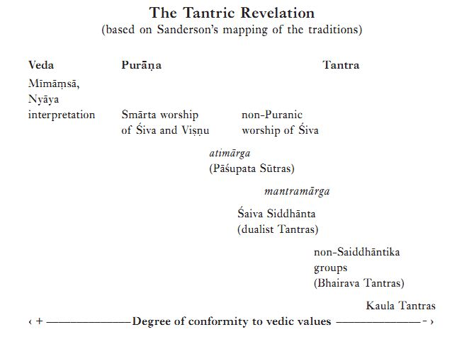 History of Shaivism map